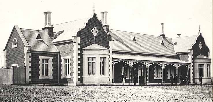 Bathurst Railway Station Dated: c.1876 Digital ID: 17420_a014_a014000635 Rights: We'd love to hear from you if you use our photos. Many other photos in our collection are available to view and browse on our website using Photo Investigator .